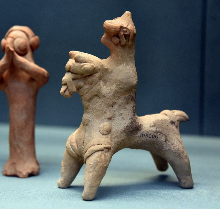 Horse-rider figurine from Karkemish, Railway, near tomb 1. The British Museum, London (museum No.105006)